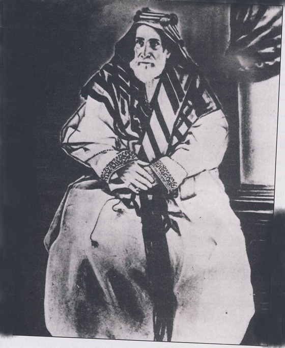 A photograph of Isa bin Ali Al Khalifa (1848 – 1932), the Hakim of Bahrain since 1869 to 1923. Date unknown though likely early 20th century.